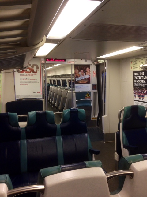 Interior of a typical LIRR train car